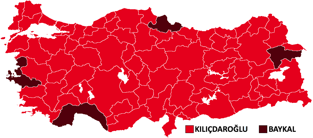 Map showing the endorsements made by the 81 provincial party chairpersons for the CHP leadership election, 2010